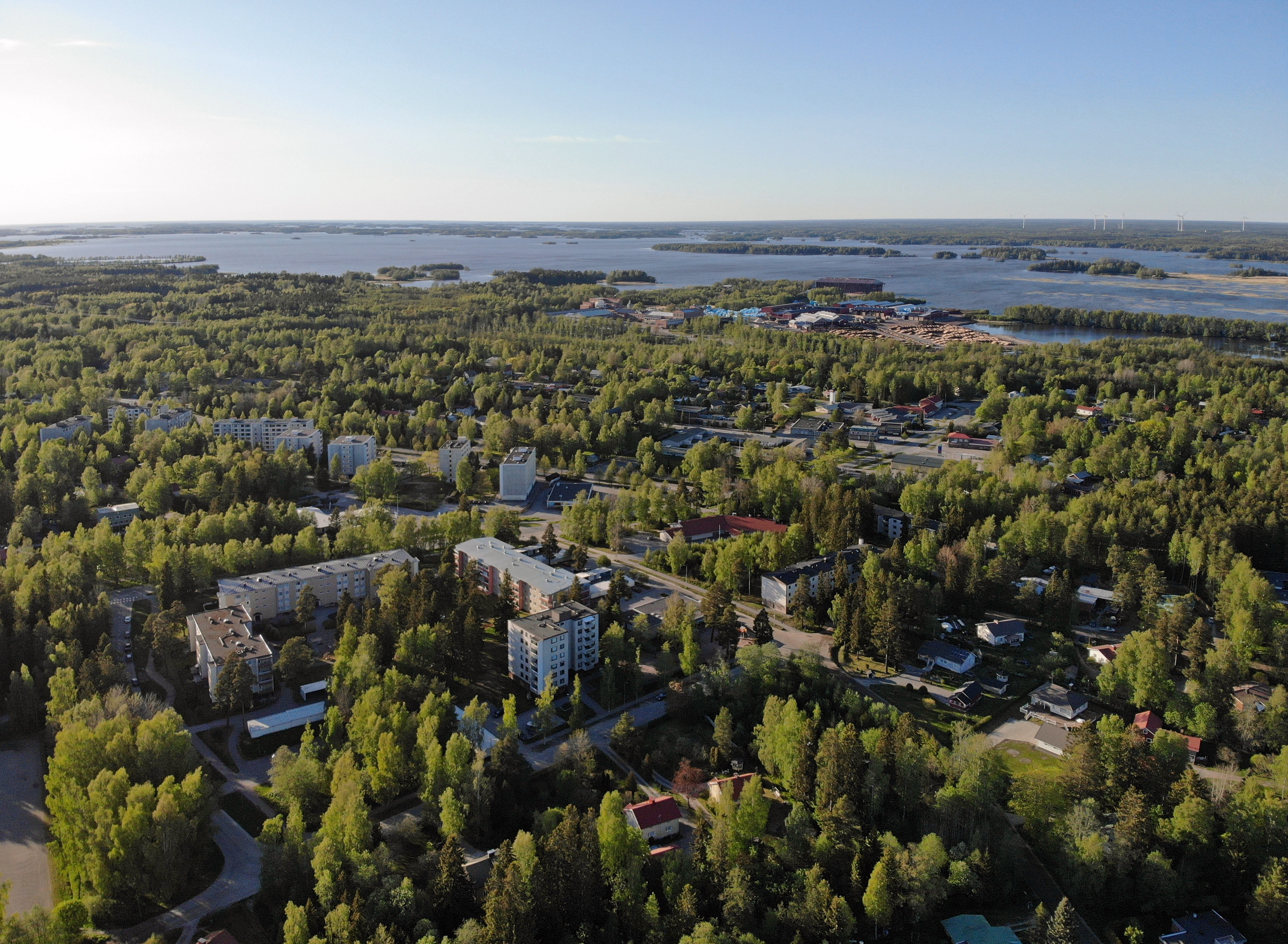 Pihlava, Pori, Finland.